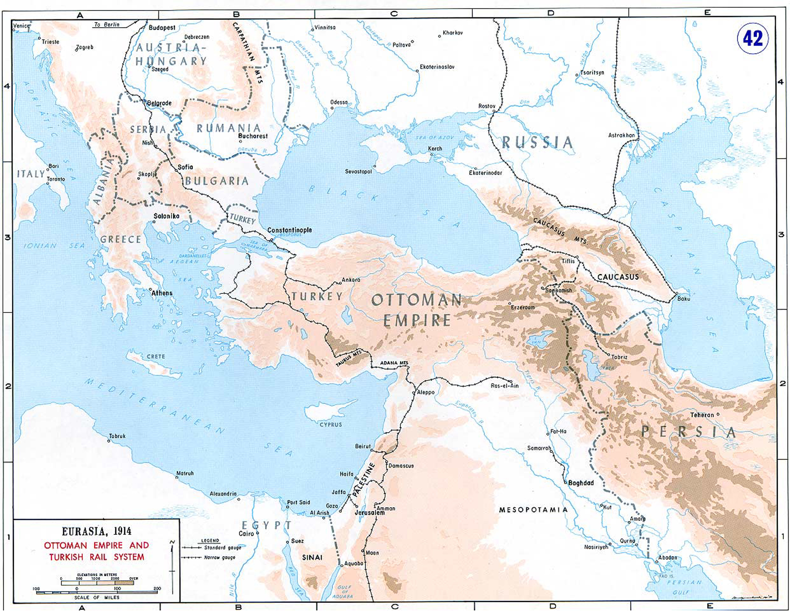 Map showing Ottoman rail network in Eurasia and Middle East in 1914.